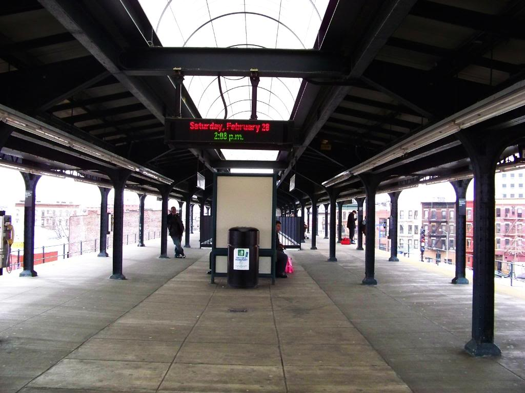 View from Exit Stairway